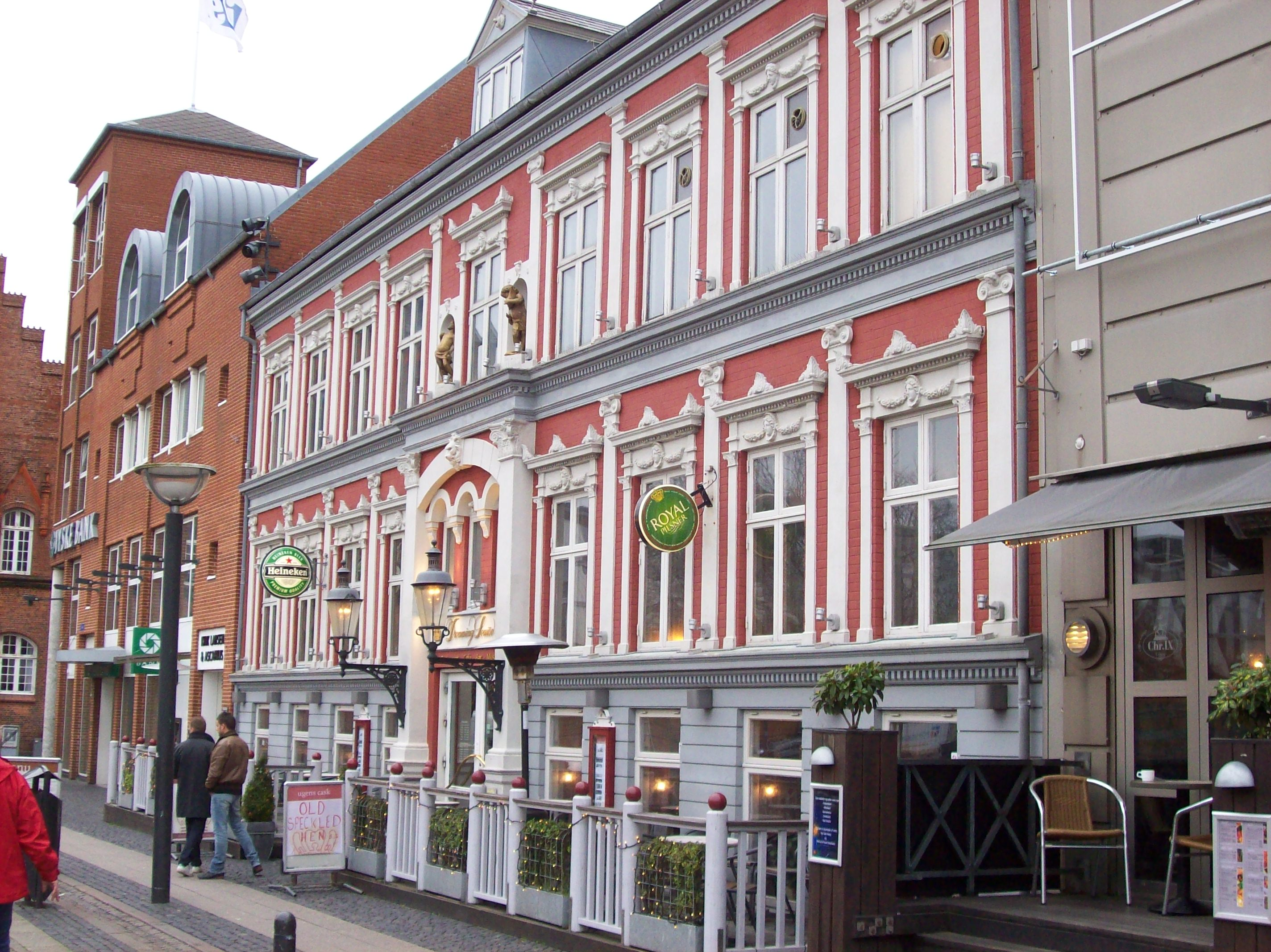 Dronning Louise Bar and Restaurant, Esbjerg, Jutland, Denmark.